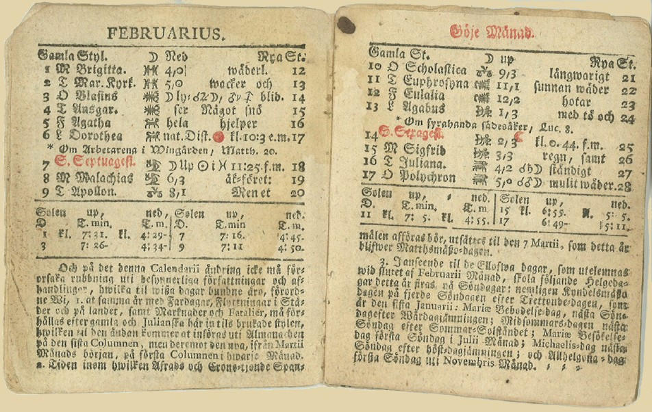 Swedish almanack of february 1753, when there were only 17 days due to the adopting of the Gregorian calendar.